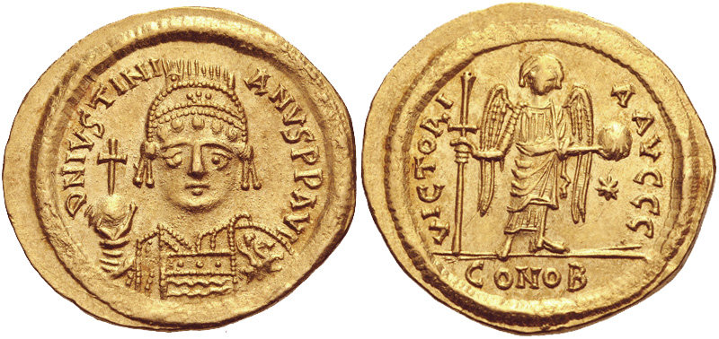 Justinian I. 527-565. AV Solidus (21mm, 4.42 g, 5h). Thessalonica mint. Struck 538-545. D N IVSTINI-ANVS P P AVI, helmeted and cuirassed bust facing, holding globus cruciger and shield. VICTORI-A AVGGG, Angel standing facing, holding long cross and globe; star to right; CONOB. DOC 7; MIBE 22; Metcalf, Thess. 321-33; SB 138.